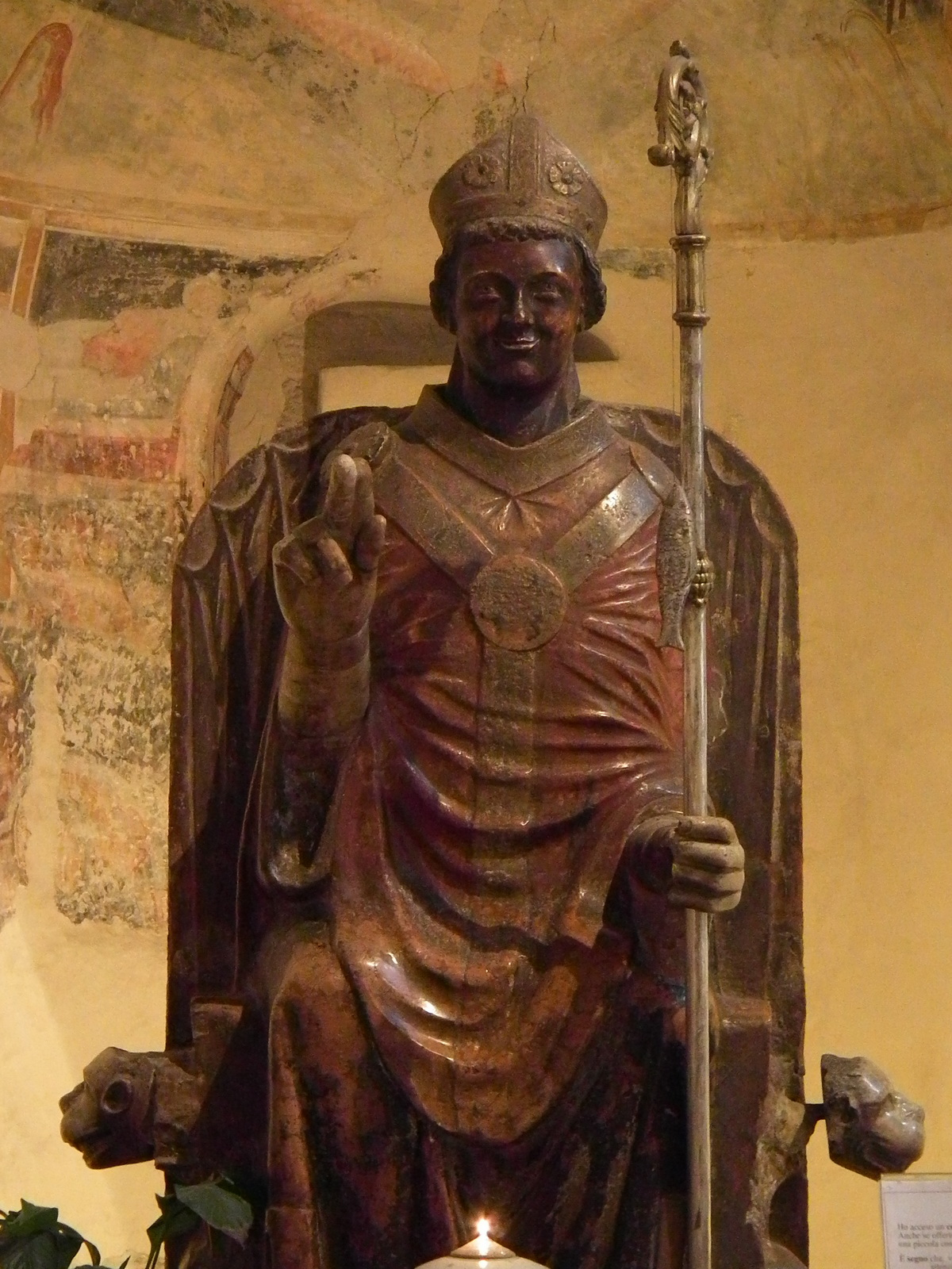 Basilica of San Zeno, Verona Native nameBasilica di San ZenoLocationVerona, Veneto, ItalyCoordinates45° 26′ 33″ N, 10° 58′ 45″ E Established12th/13th centuryWebsite control : Q1763642